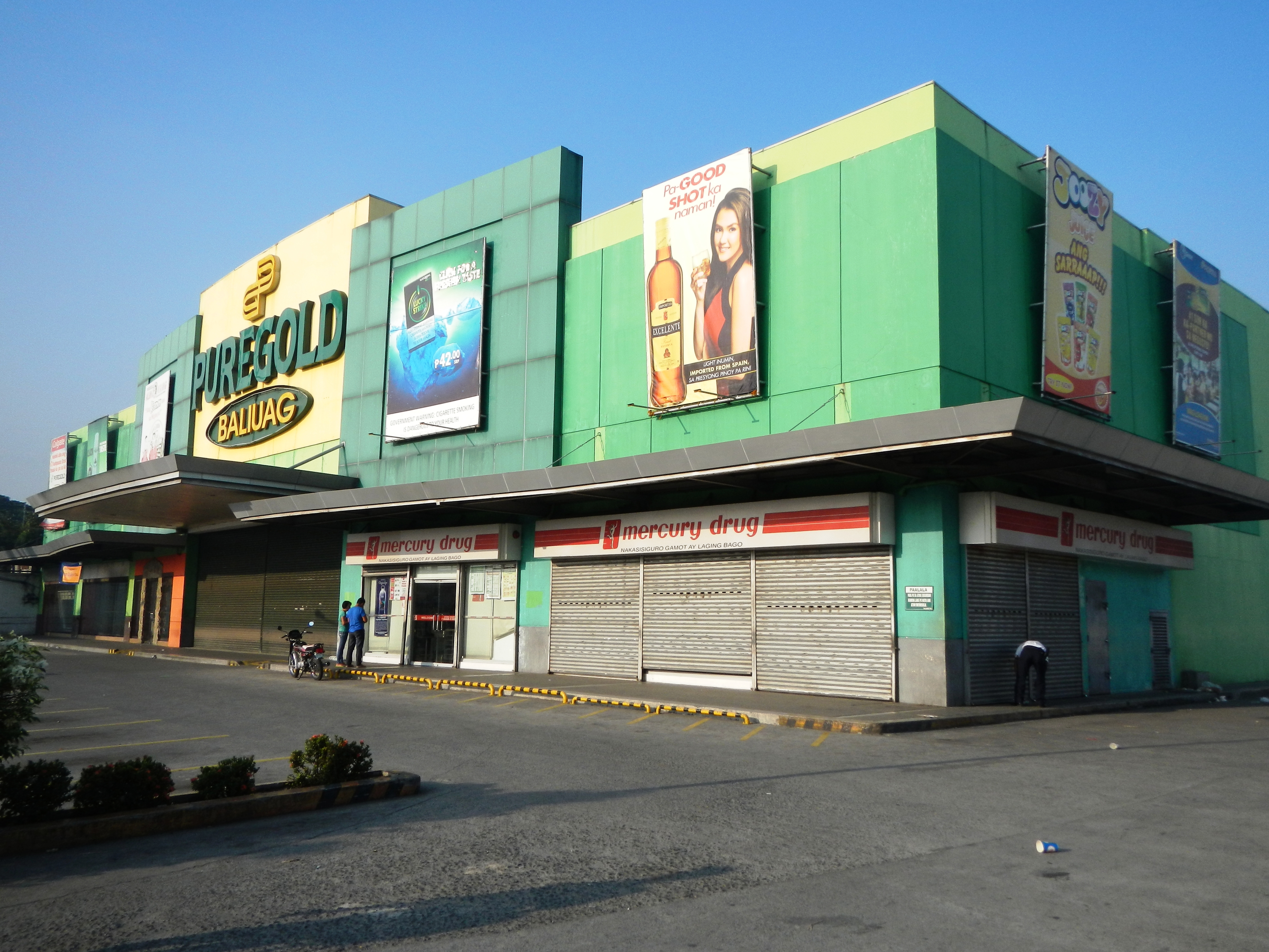 Puregold Baliuag Bulacan.